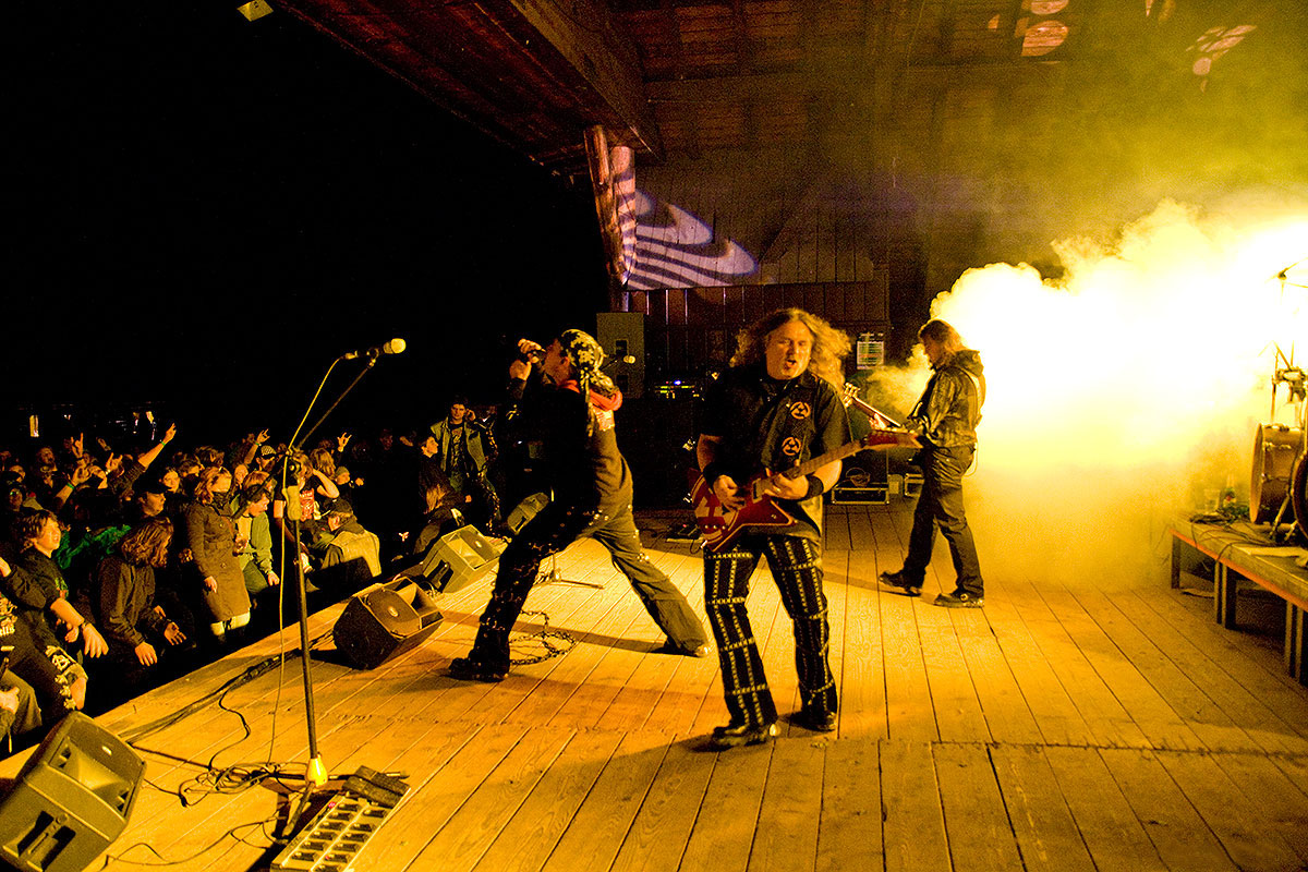 Arakain na: Gorolski dym (EU - Jablunkov).